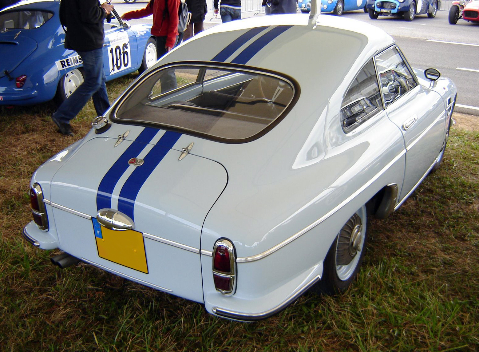 1959 DB (Deutsch-Bonnet) HBR5 (with Peugeot 403 taillights) at the Autodrome de Linas-Montlhéry, 2009